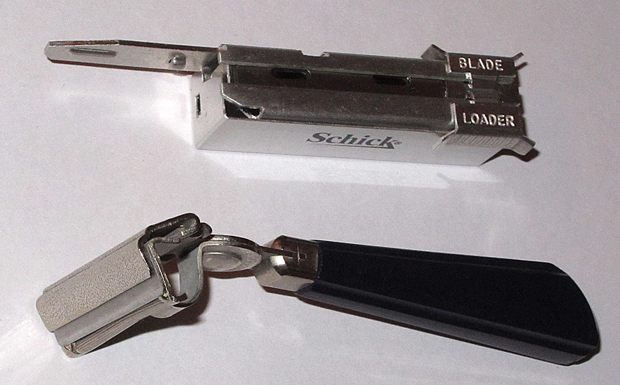 A Schick razor with an injector.